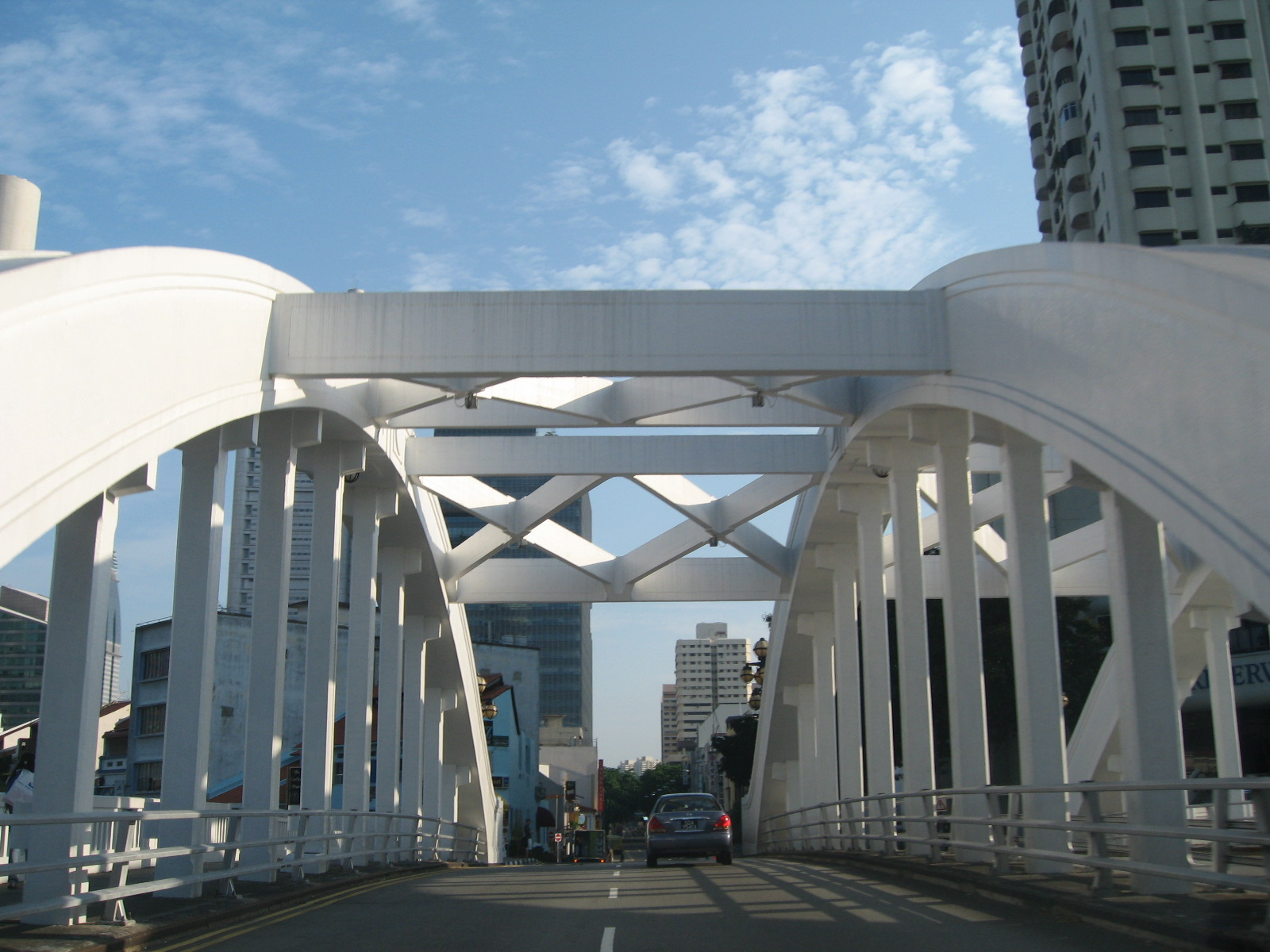 Elgin Bridge.